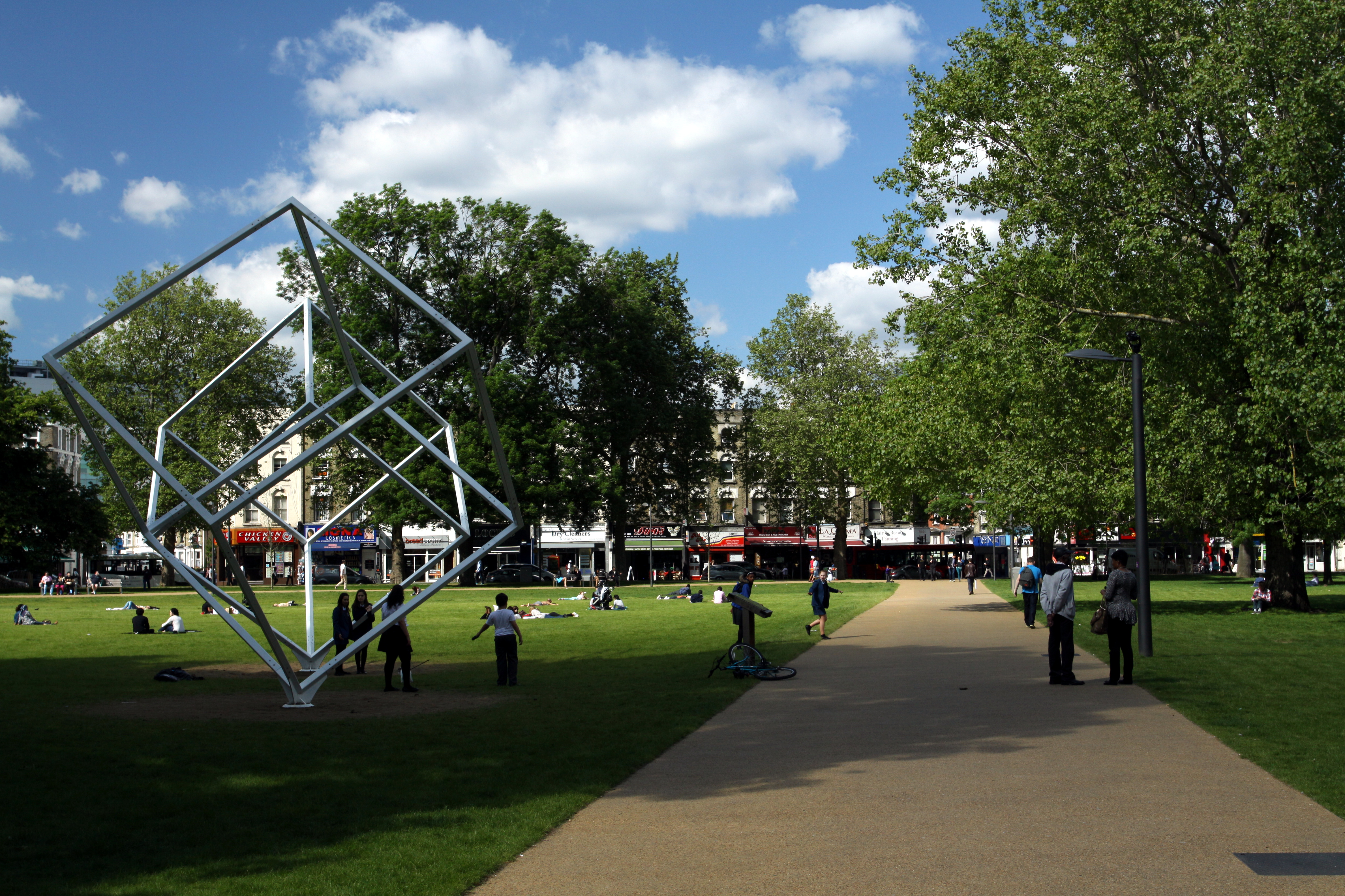 Shepherds Bush Commo in London Borough of Hammersmith and Fulham, London, England, Great Britain The making of this file was supported by Wikimedia UK.